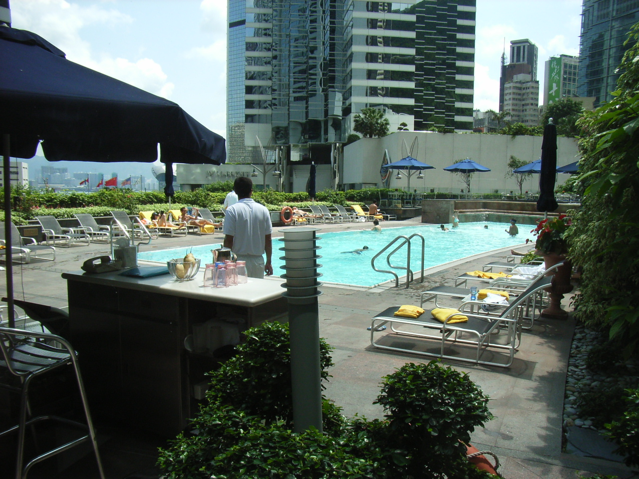 Conrad Hong Kong, hotel picture by QWB656